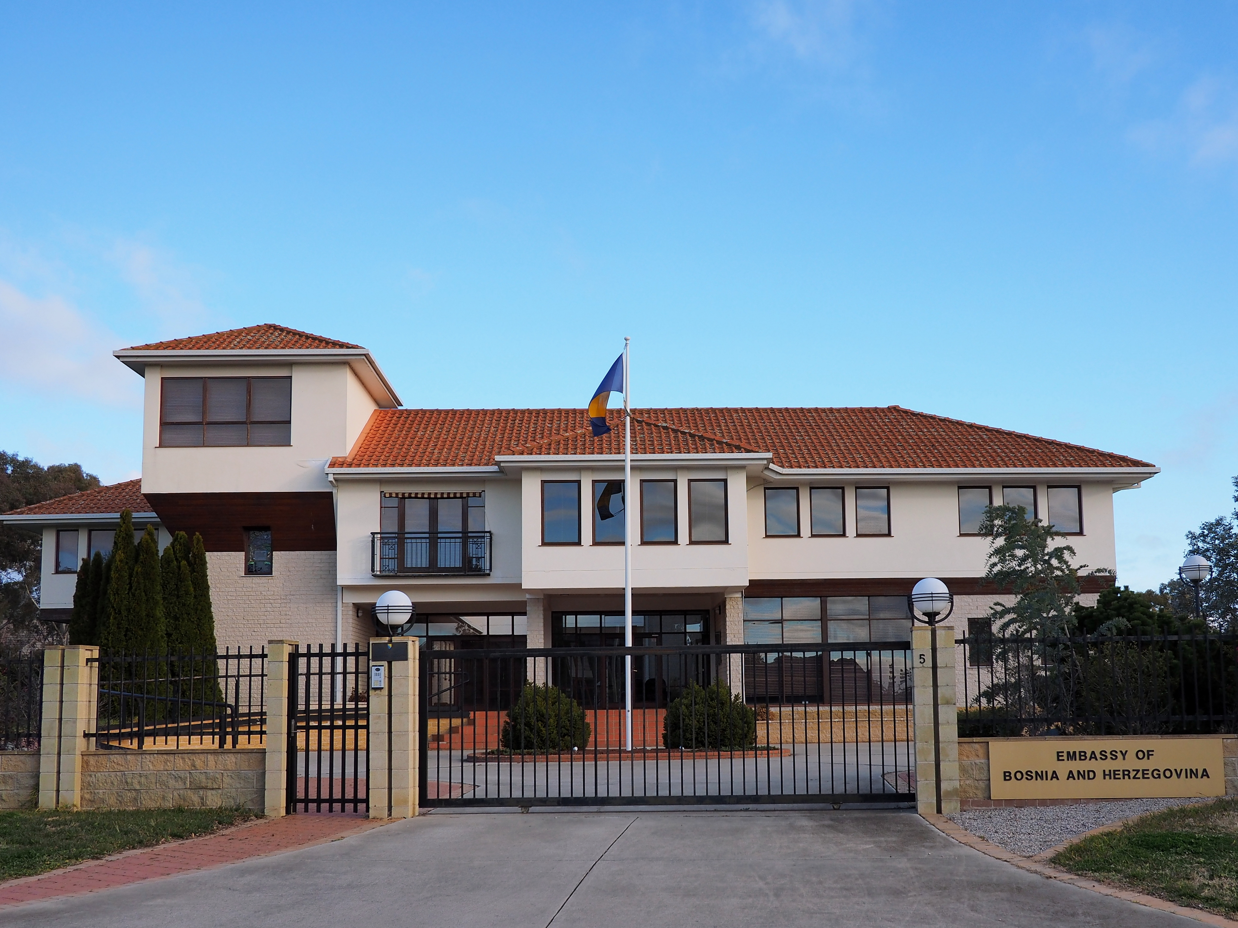 The Embassy of Bosnia and Herzegovina in Canberra